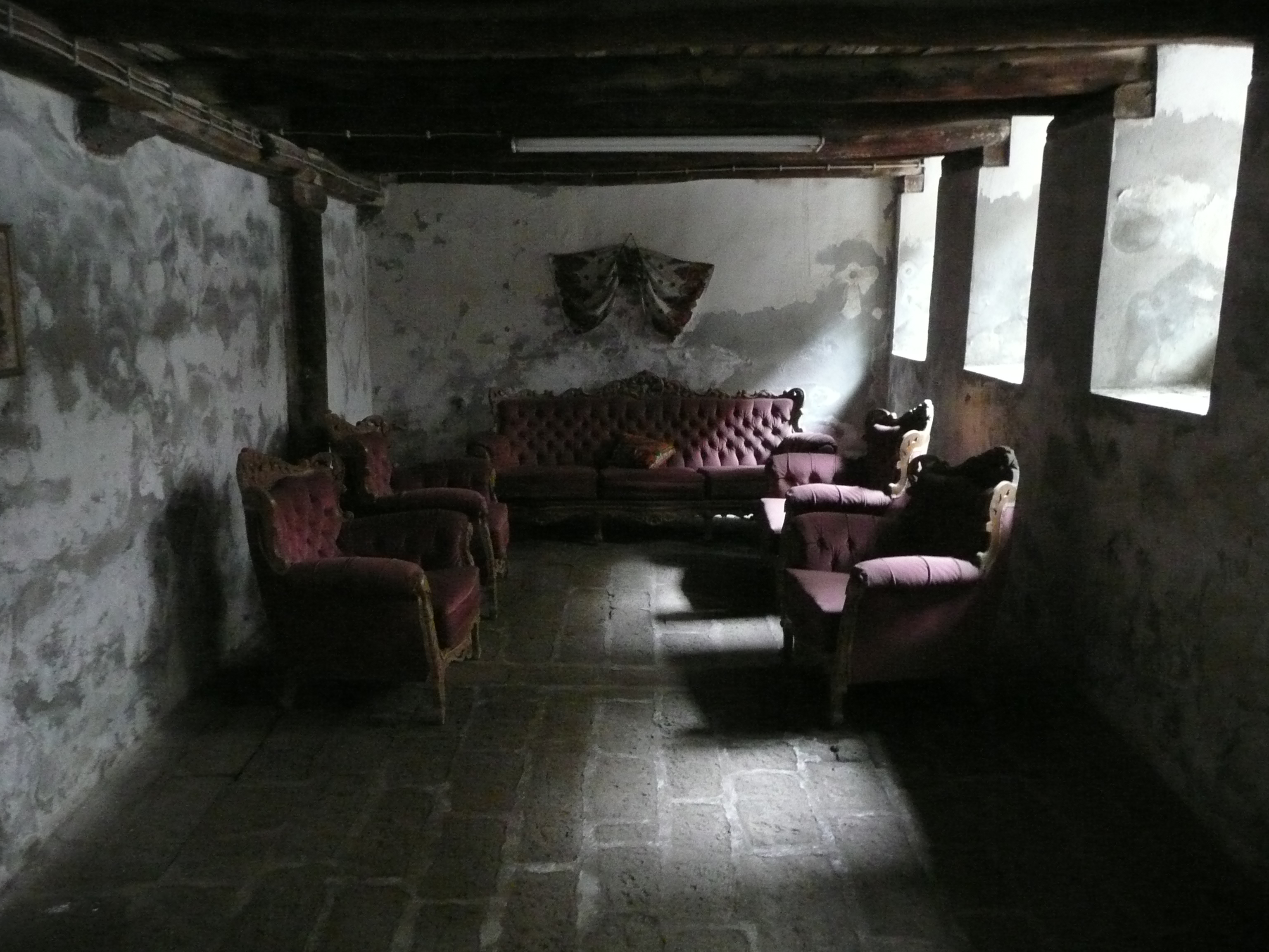 Photographs from Diyarbakir, Turkey